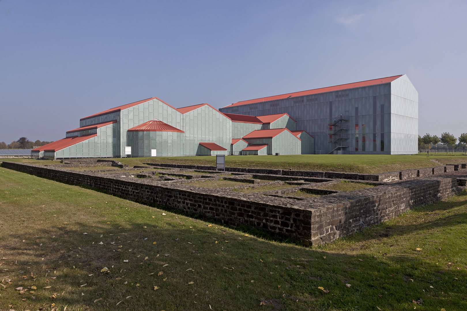 Museum at Römerpark Xanten, Germany